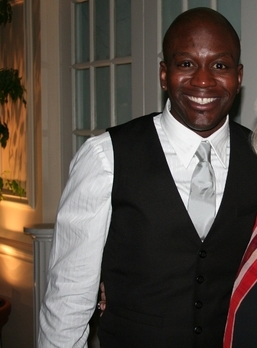 Tituss Burgess and Barbara Cook at the NYS ARTS Fall Gala 2008